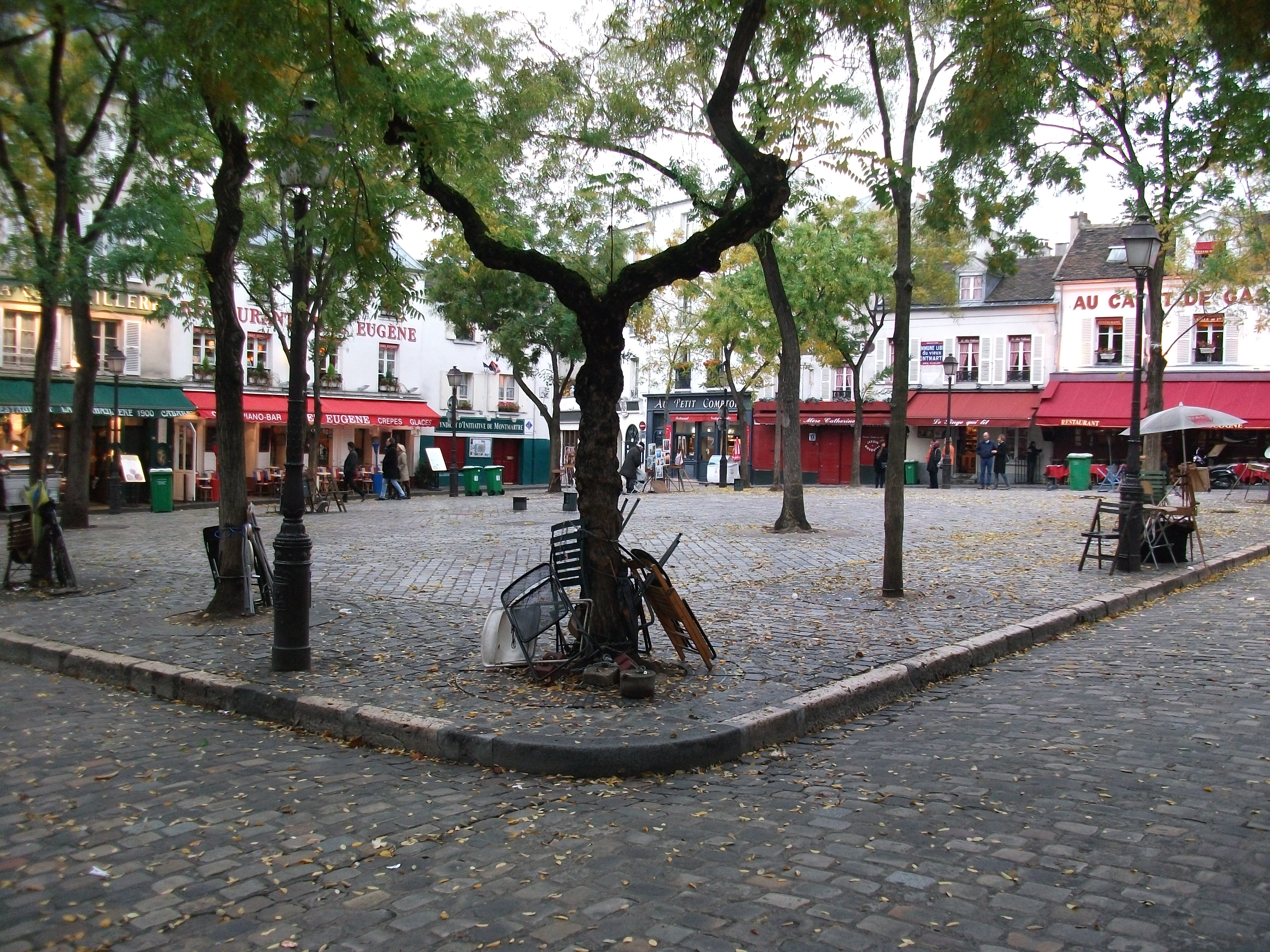 Photograph of Place de Tertre in Paris.